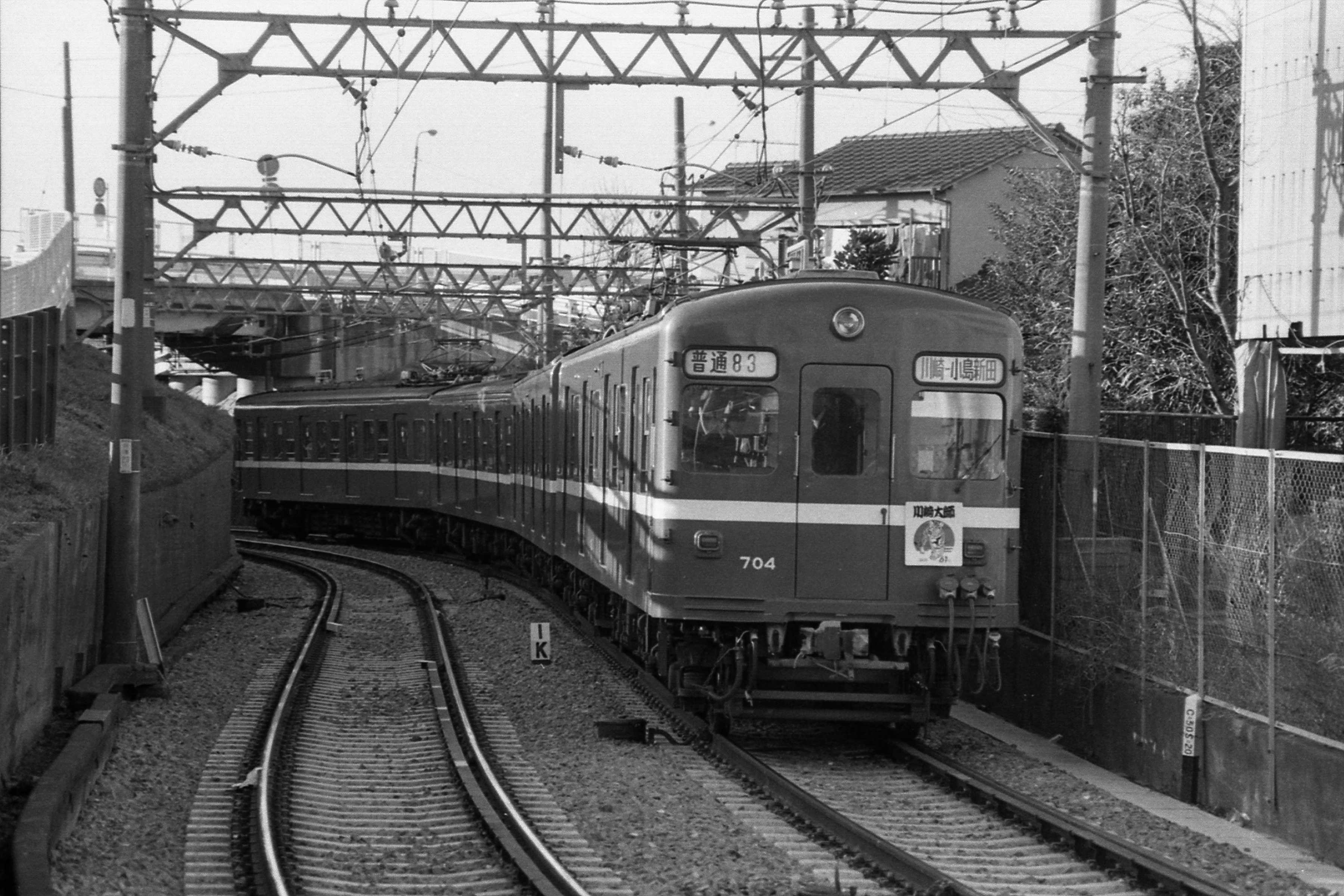 Keikyu unit 703 running Daishi line Taken at nearby Minatocho station